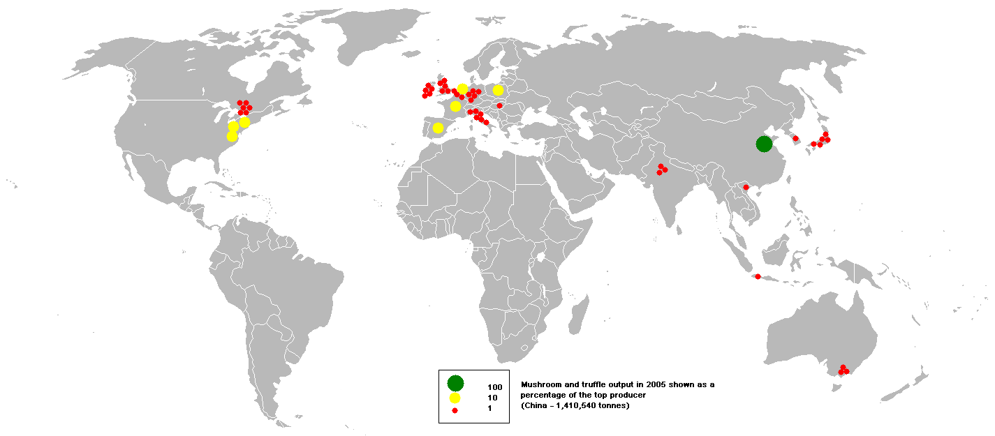 This bubble map shows the global distribution of mushroom and truffle output in 2005 as a percentage of the top producer (China - 1,410,540 tonnes). This map is consistent with incomplete set of data too as long as the top producer is known. It resolves the accessibility issues faced by colour-coded maps that may not be properly rendered in old computer screens. Data was extracted on 9th June 2007 from Based on :Image:BlankMap-World.png